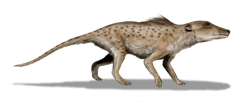 Pakicetus inachus, a whale ancestor from the Early Eocene of Pakistan, after Nummelai et al., (2006), pencil drawing, digital coloring